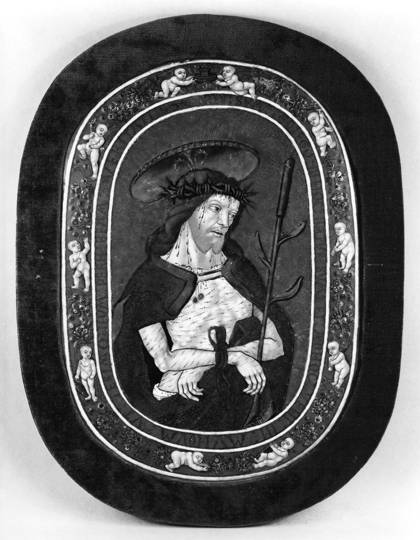 While the mystics of the late Middle Ages pictured the tender incidents surrounding the birth of Christ, they also vividly portrayed the agonies of His death. On this devotional image Christ is pictured wearing the crown of thorns, placed on Christ's head to mock him as "king." This kind of representation is called "Ecce Homo," meaning "Behold the Man," the words spoken by Pilate as he presented Jesus to the waiting crowd. Inscribed around the inner border are Christ's words to Pilate (John 18:37), "I am a King; for this I was born and for this came I into the world that I should give testimony to the truth."